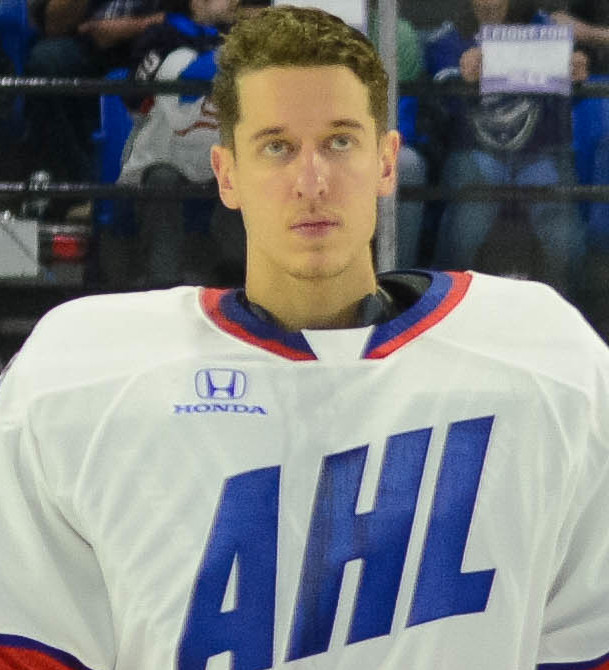 (Lindsay Mogle/ AHL)